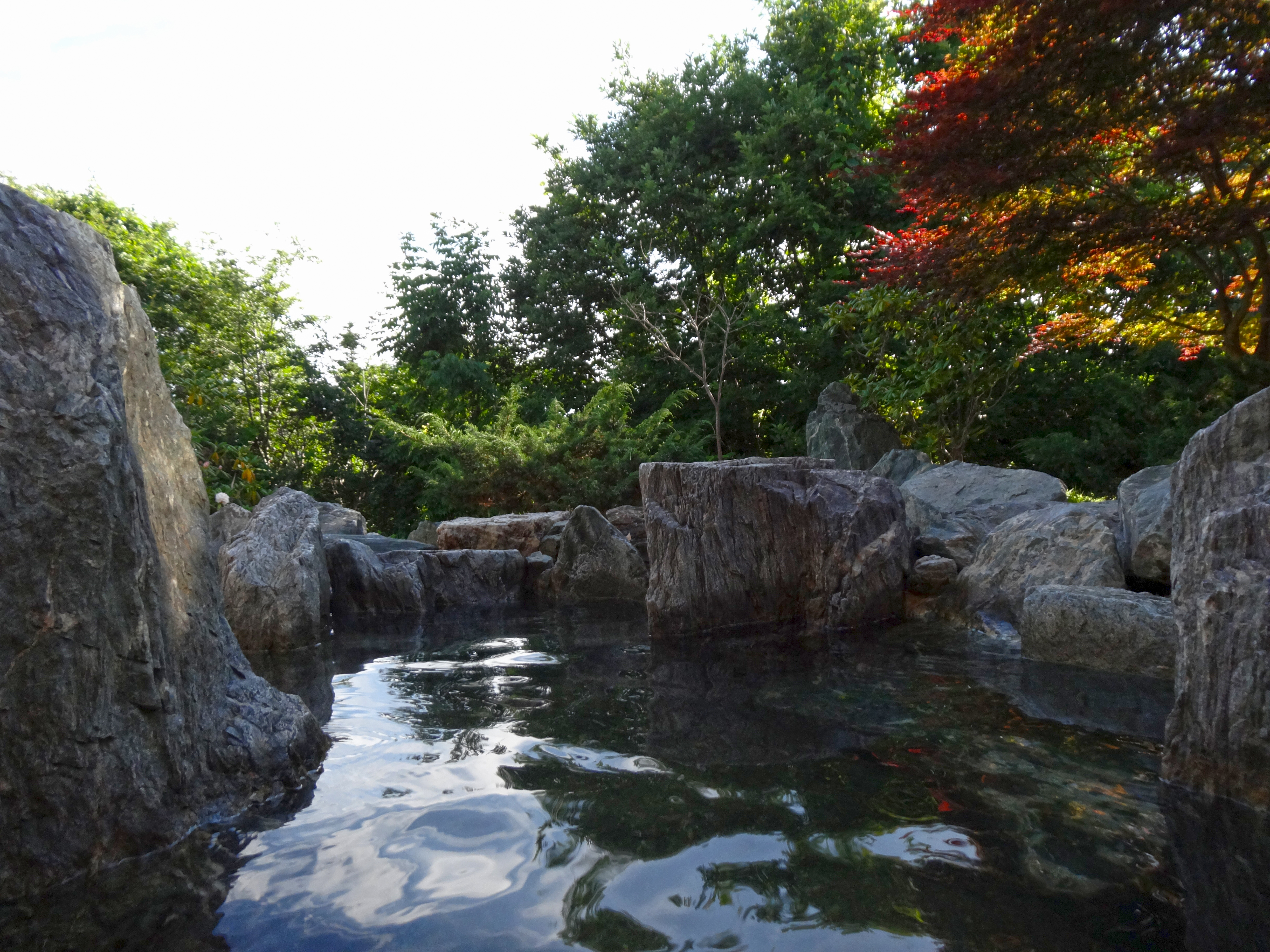 HOKUTEN NO OKA Lake Abashiri Tsuruga Resort in Abashiri, Hokkaido, Japan.